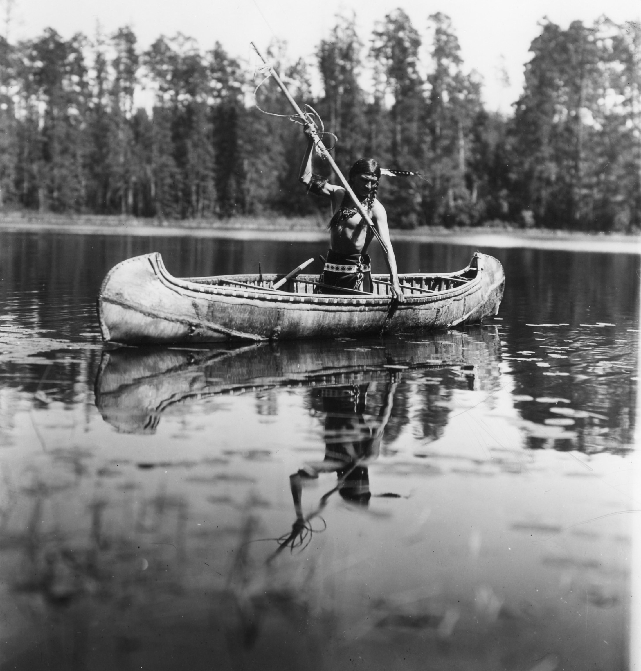 Ojibwe spearfishing